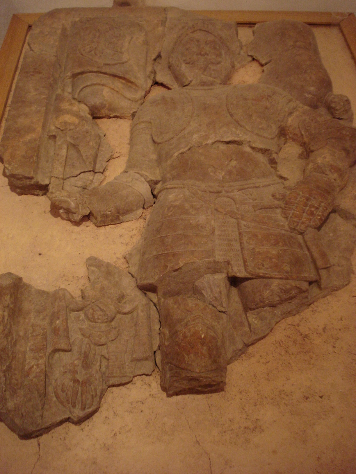 Nikola Šubić Zrinski gravestone from 1566 in Čakovec (Croatia)